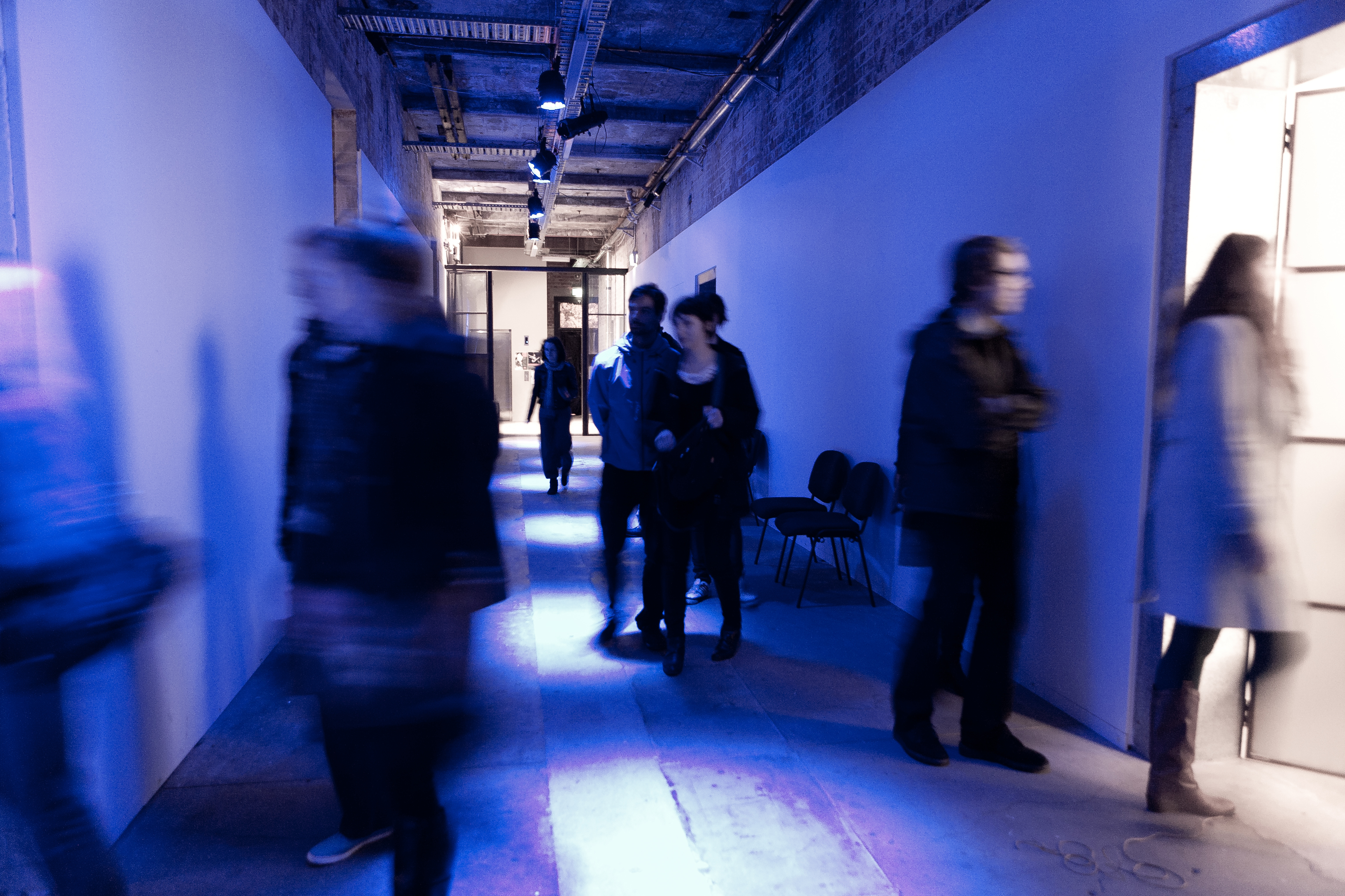 Substation Galleries, Newport, Victoria